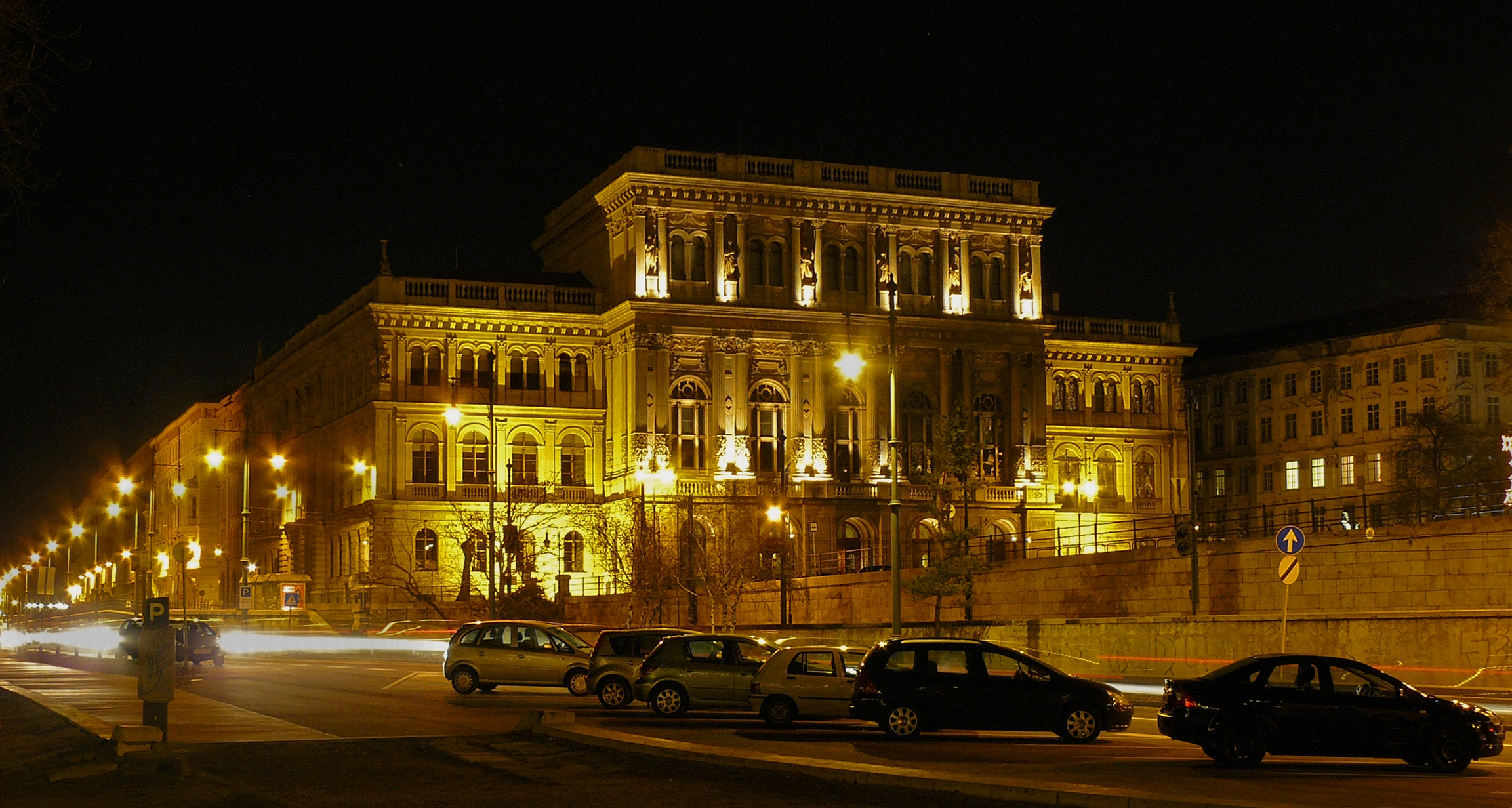 Hungarian Academy of Sciences (MTA)